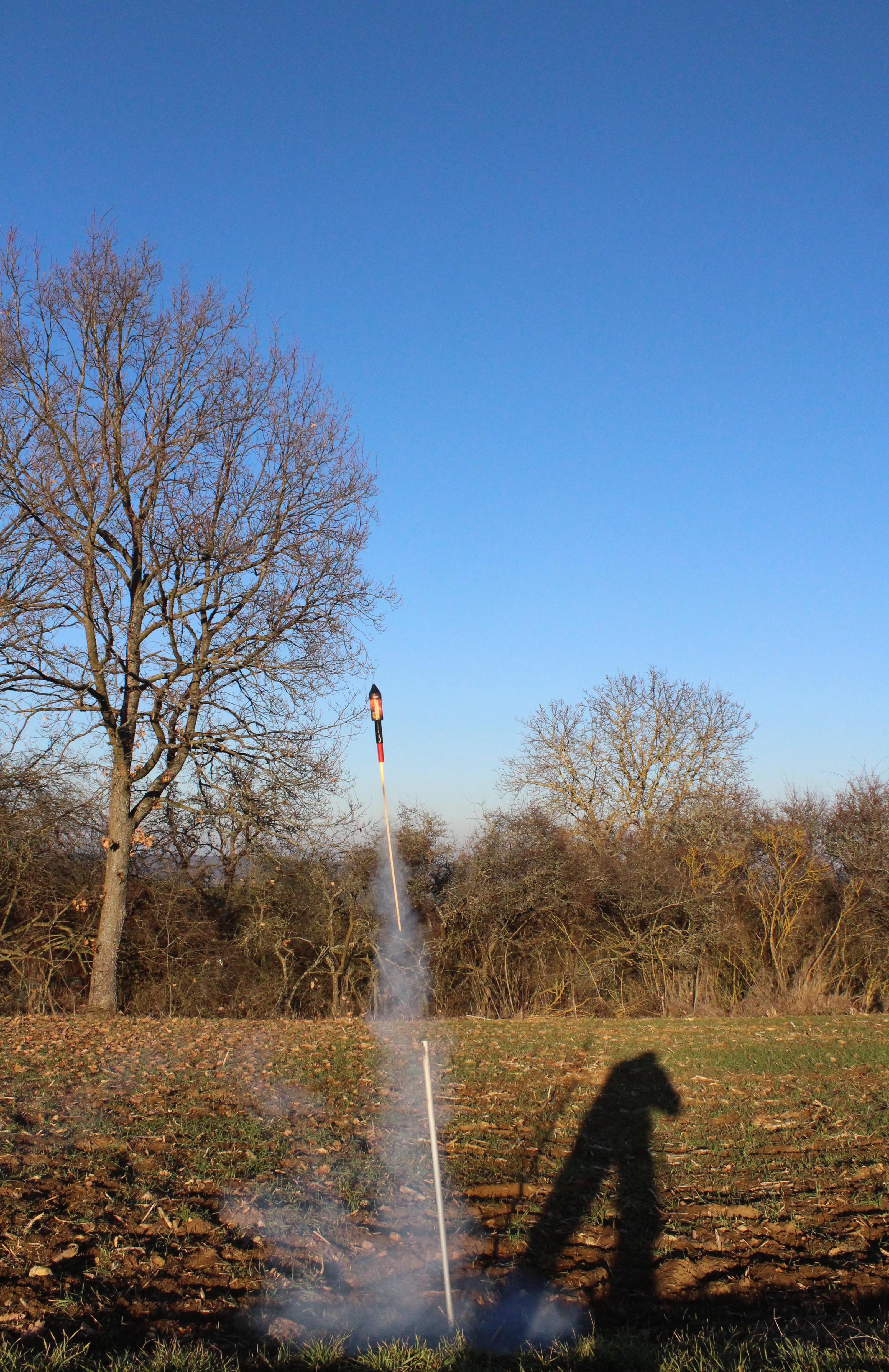 Boosted Firework Rocket @ Launch